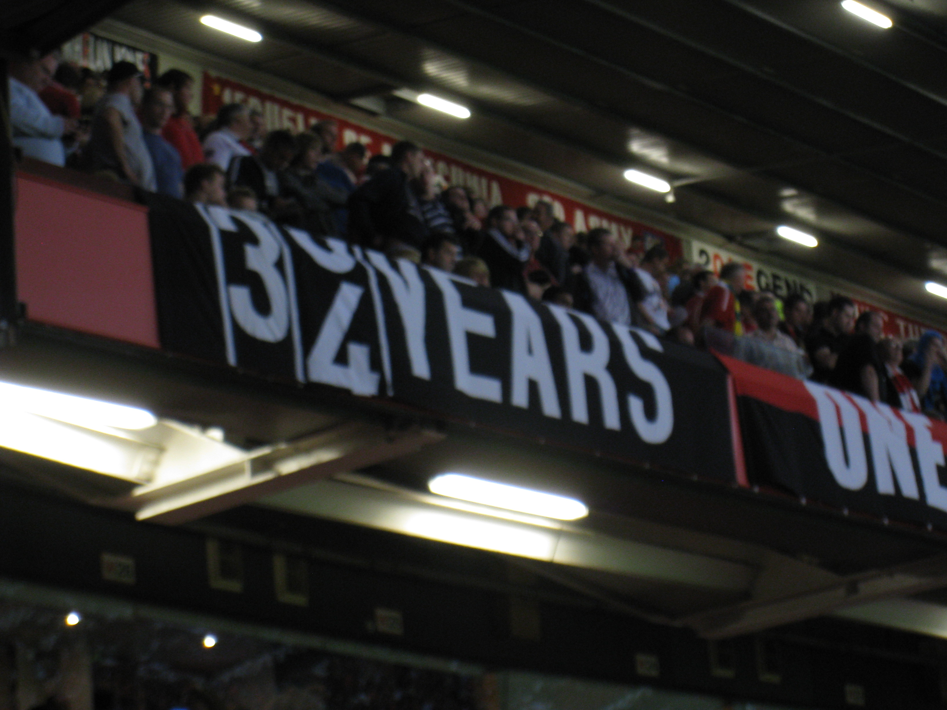 An image of the iconic banner in the Stretford End of Old Trafford showing how many years have passed since Manchester City last won a major trophy